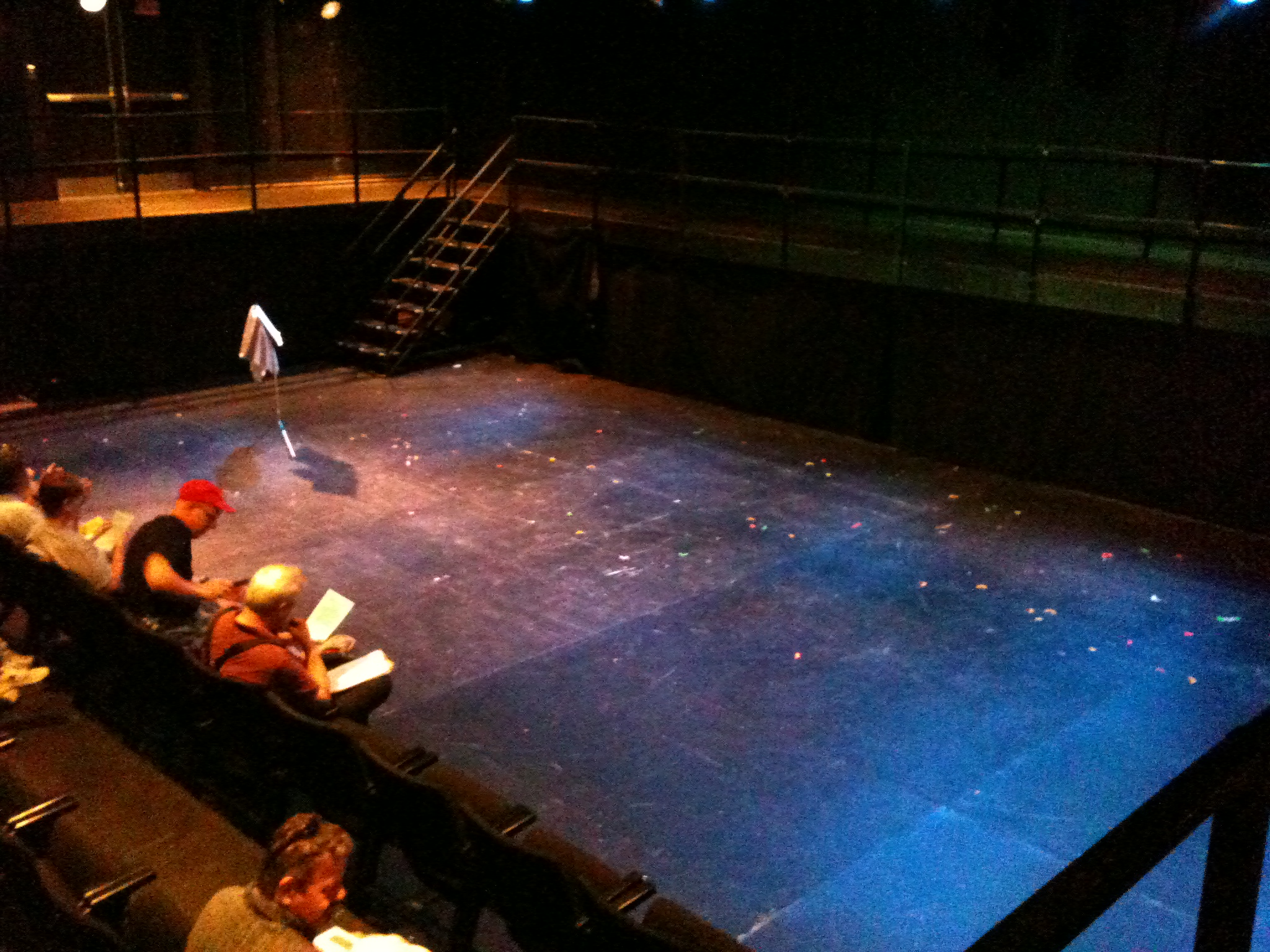 The Nolte Xperimental Theatre at the Rarig Center during the Minnesota Fringe Festival prior to a performance of Rachel Teagle Believes in Ghosts in 2010.